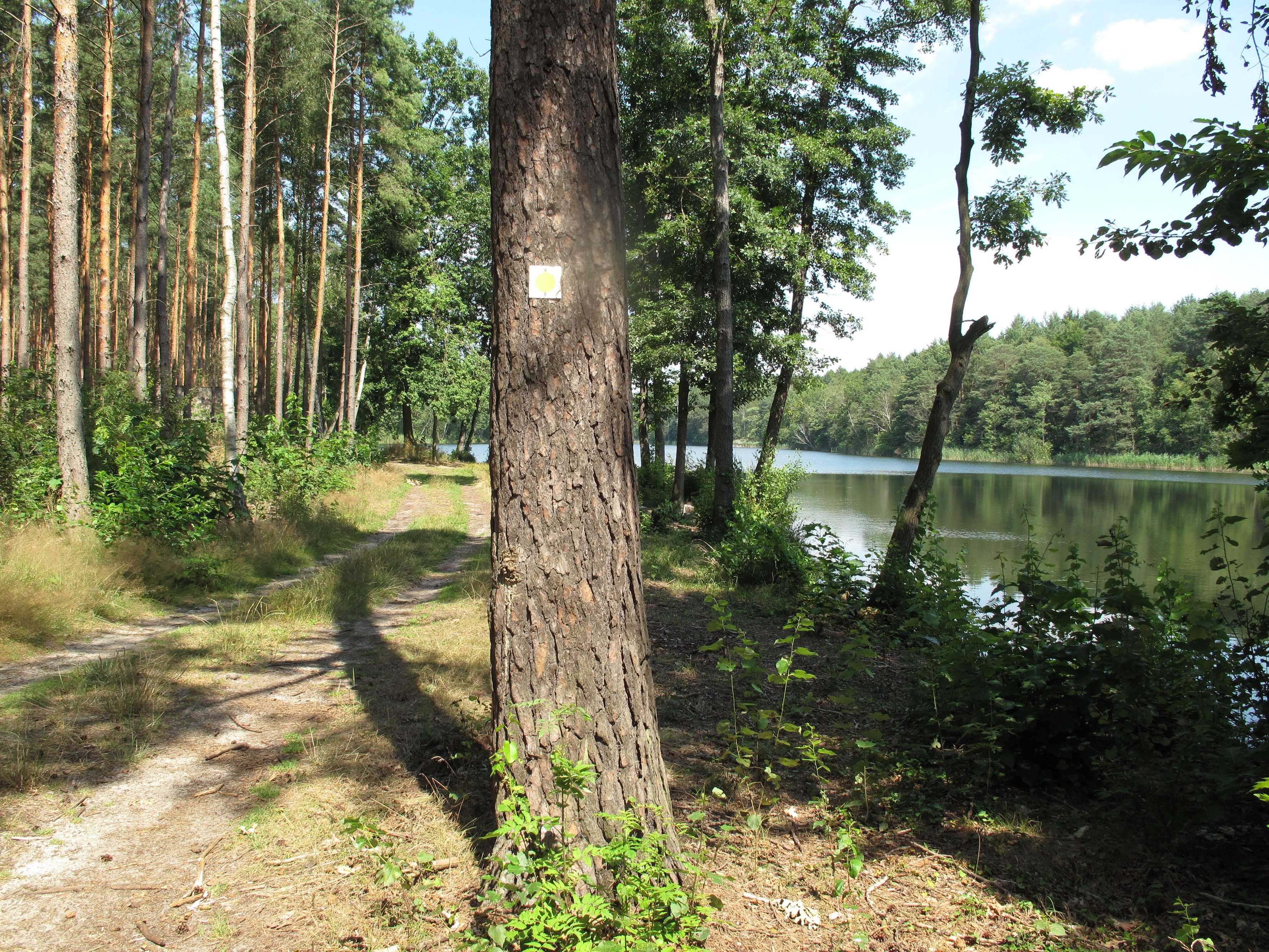 Route around the Ahrensdorfer See at the western shore. The Ahrensdorfer See is a lake in the village Ahrensdorf, a part (german: Ortsteil) of the municipality Rietz-Neuendorf in the District Oder-Spree, Brandenburg, Germany. The lake covers 11 hectare and is situated in the Dahme-Heideseen Nature Park. The long-drawn groove lake is the central water of a five-part chain of lakes, which is connected by the Blabbergraben. The Blabbergraben drains the lakes to the south into the river Spree.